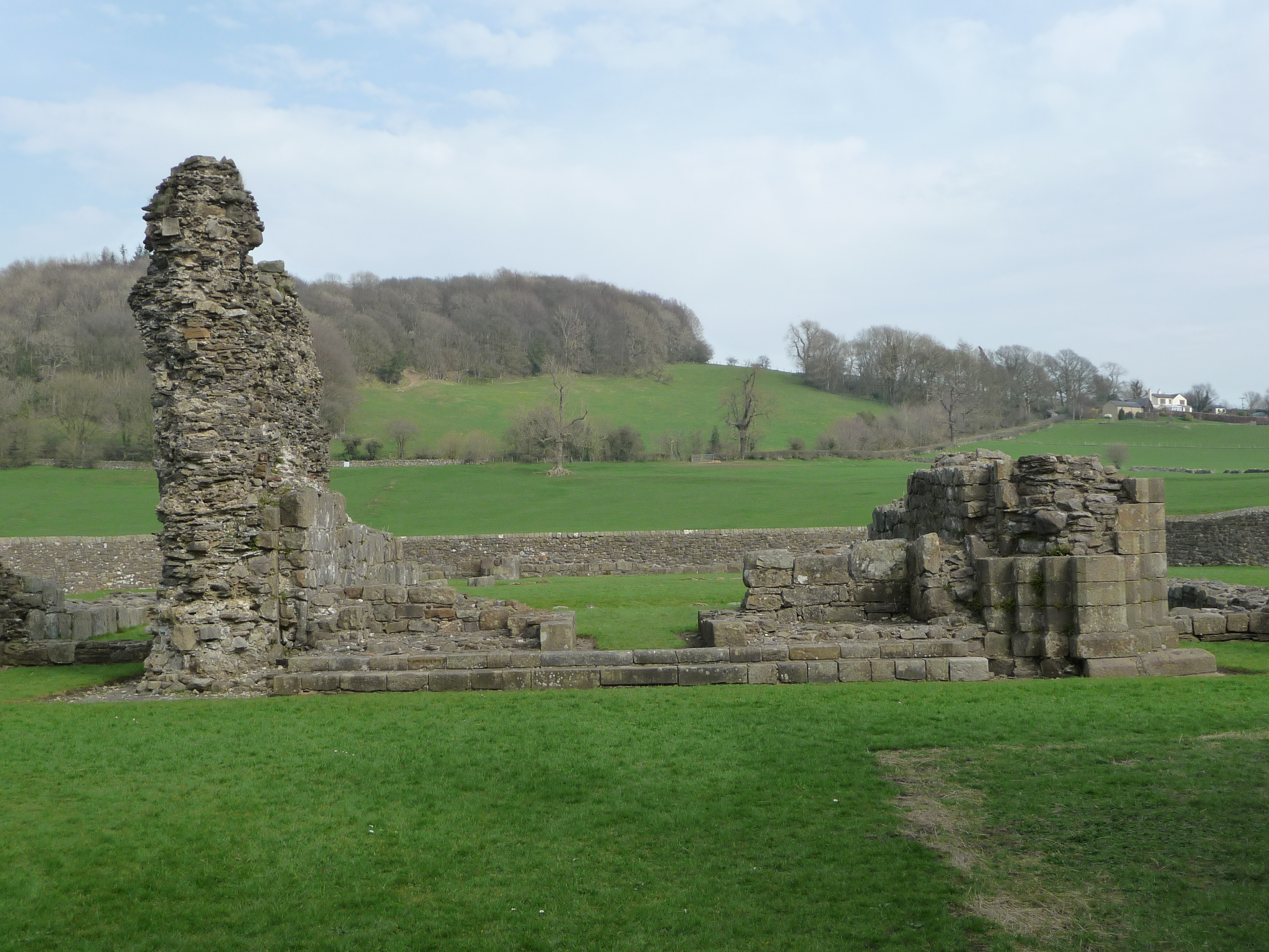 Ruins of Sawley Abbey in Lancashire